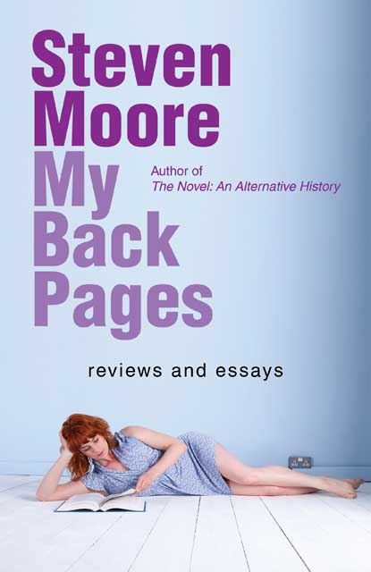 My Back Pages: Reviews and Essays by Steven Moore was published in 2017 by Zerogram Press, -- The footer of the website states that the owner allows text and images to be used under the Creative Commons Attribution-Sharealike 3.0 license.